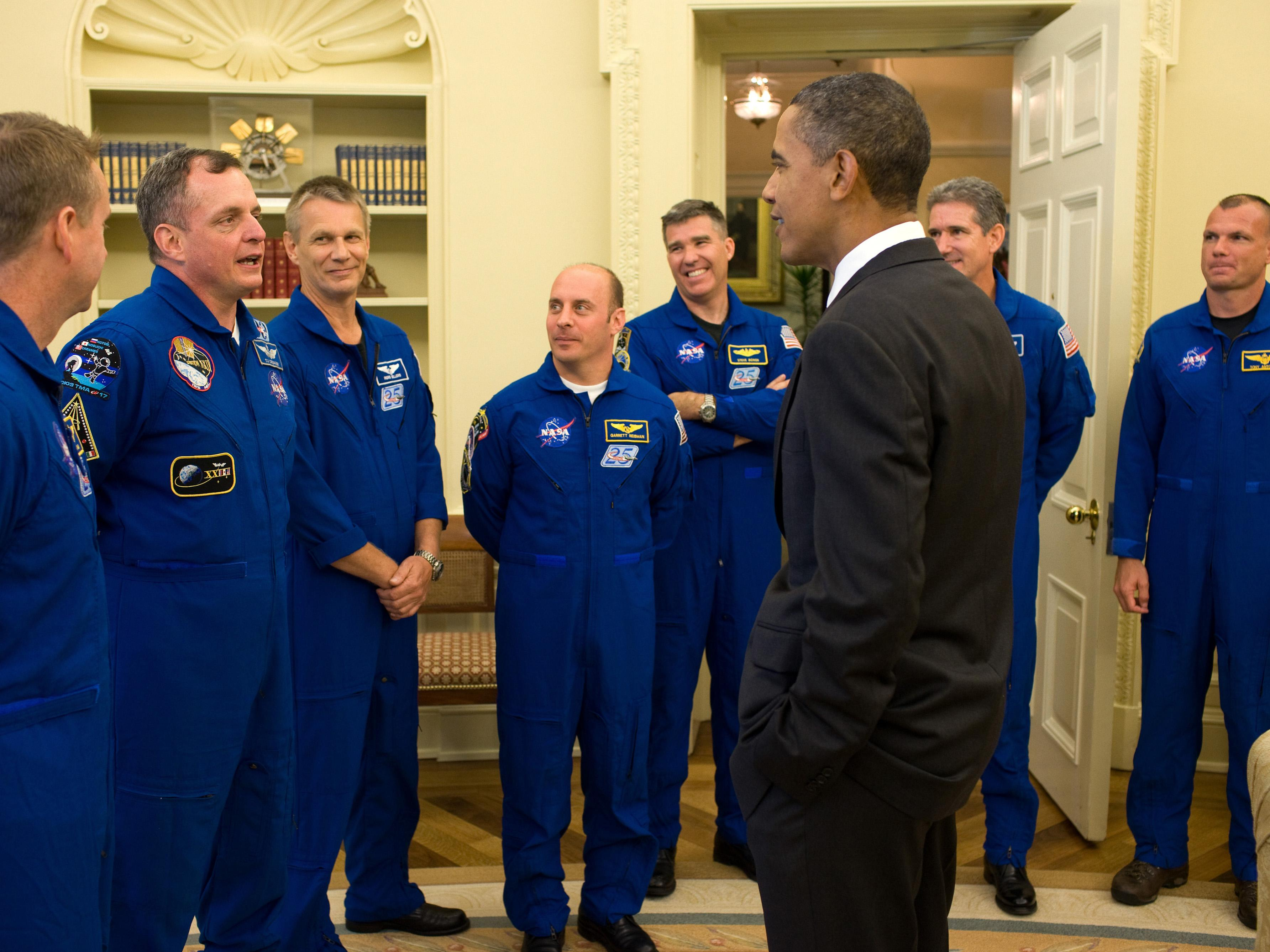 United States President Barack Obama greets the STS-132 Atlantis Space Shuttle crew and International Space Station astronaut T.J. Creamer in the Oval Office, July 26, 2010. From left, STS-132 Commander Ken Ham; Expedition 22/23 Flight Engineer T.J. Creamer; STS-132 Mission Specialists Piers Sellers, Garret Reisman, and Steve Bowen; President Obama; STS-132 Mission Specialist Michael Good; and STS-132 Pilot Tony Antonelli.